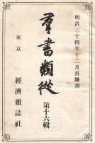 Title information (cover page) of the 16th volume of Gunsho Ruiju, a Japanese collection of historical sources, reprint dating 1901